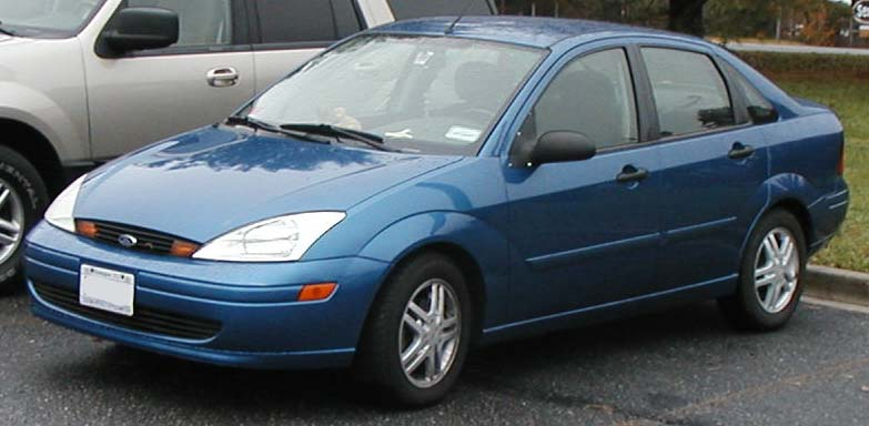 2000-2004 Ford Focus SE sedan photographed in USA.